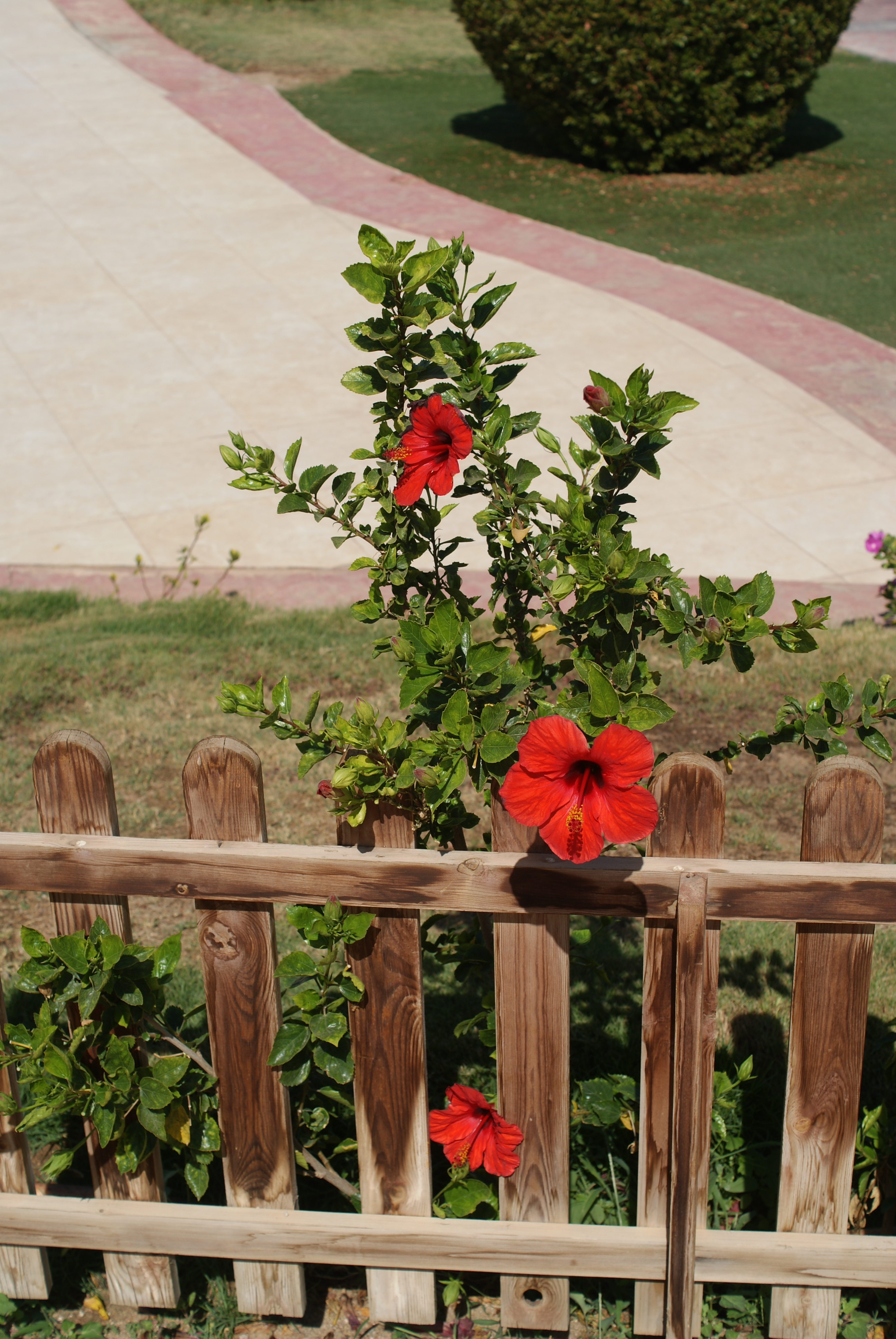 Unidentified plant in Makadi Bay